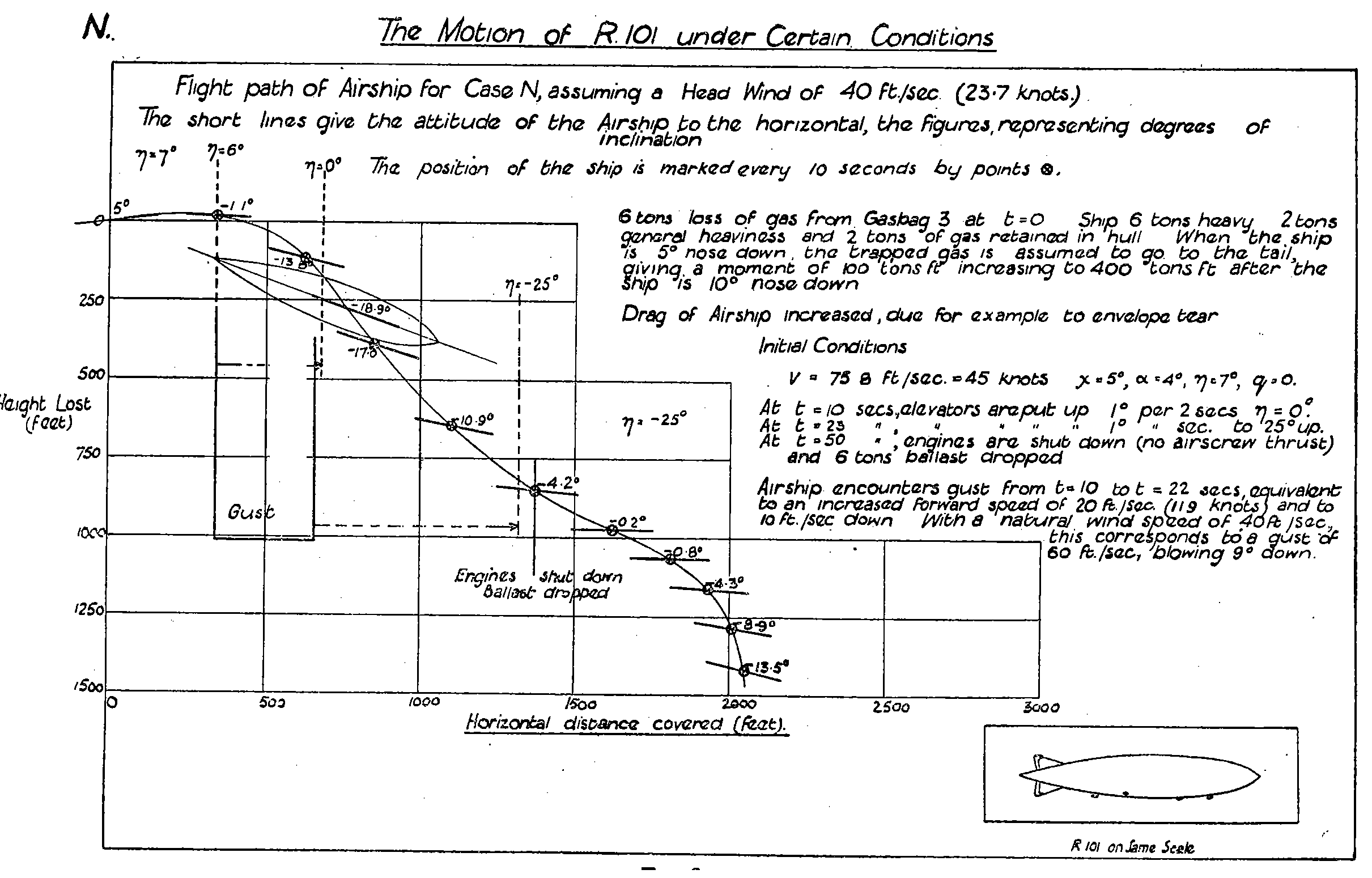 Diagram showing probable behaviour of airship under certain trim and wind conditions.